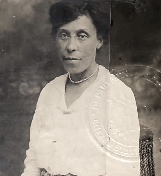 Ida Alexander Gibbs Hunt U.S. Passport Application Photo, 1918